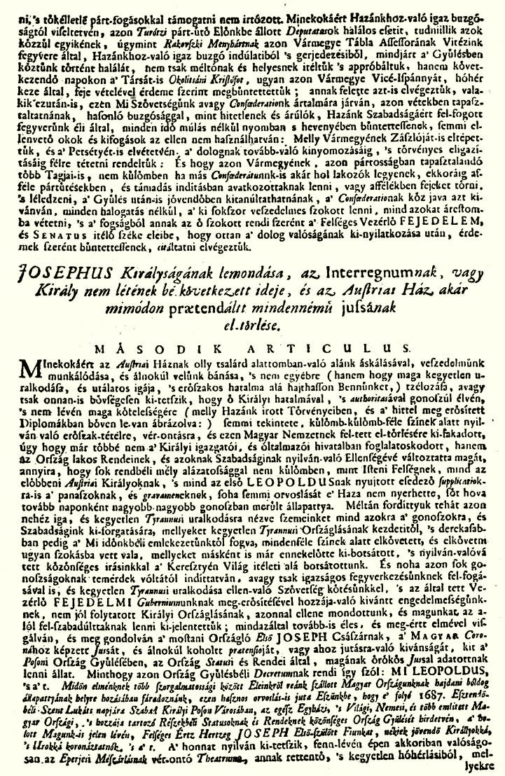 History of the Revolutions in Hungary, Ónod 1707